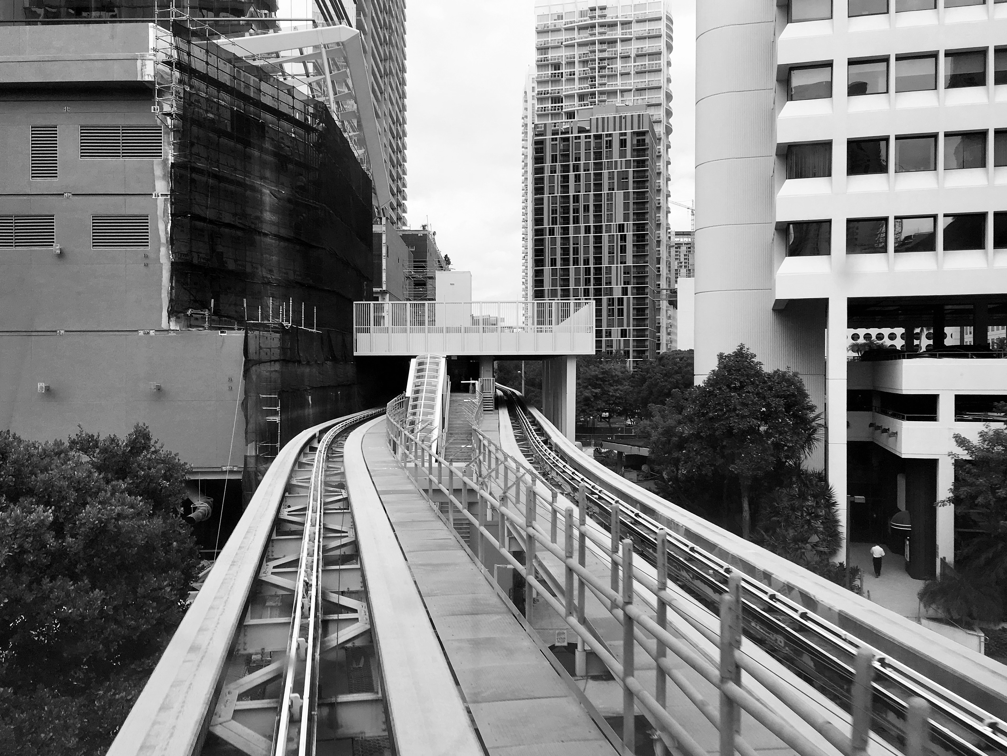 Eighth Street station (Miami), with Brickell City Centre under construction.